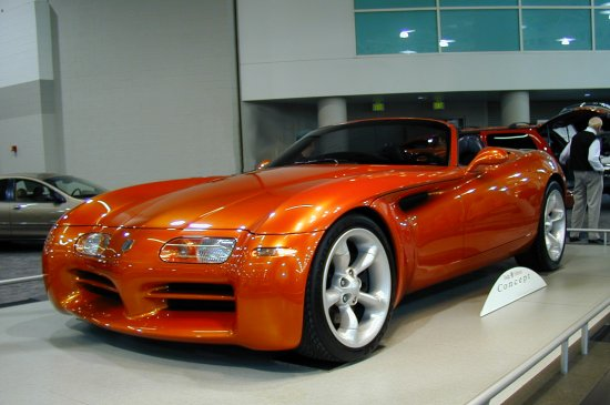 1998 Dodge Copperhead Concept